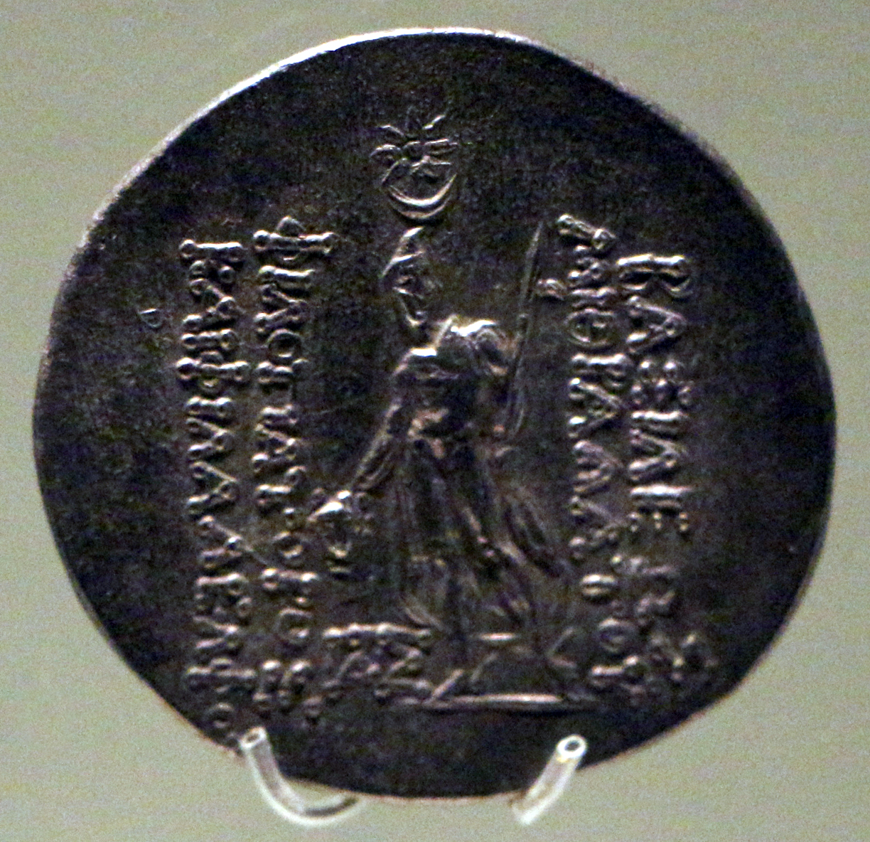 Ancient Greek coins in the Calouste Gulbenkian Museum